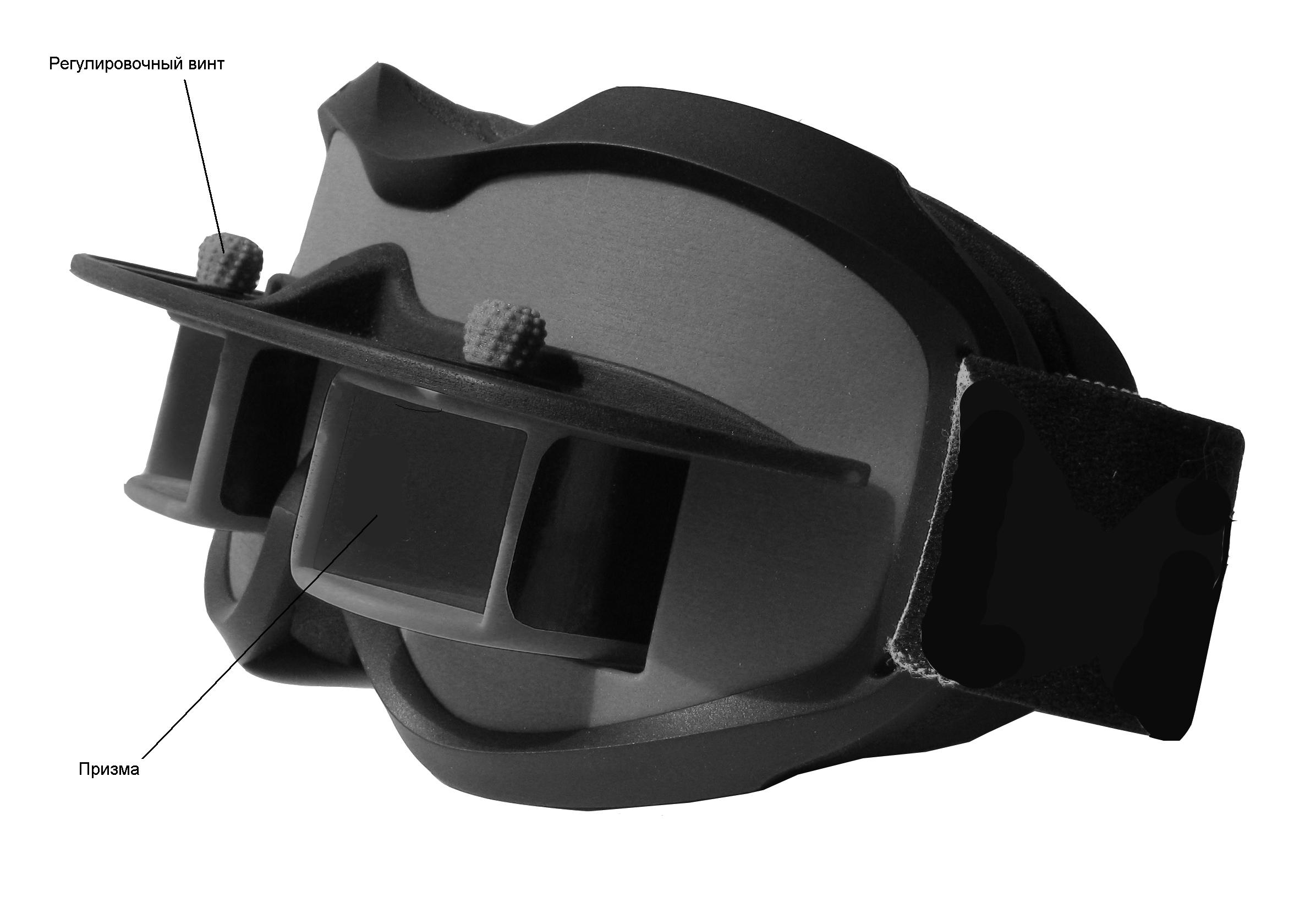 Псевдоскоп призматический, prismatic pseudoscope